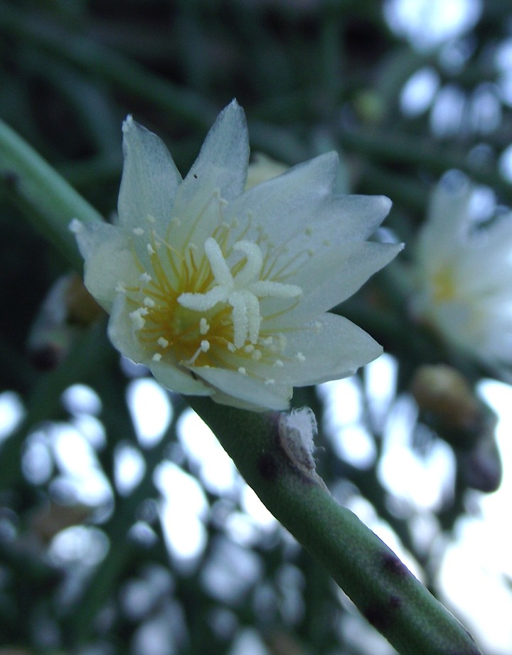 Lepismium lumbricoides at the Volunteer Park Conservatory, Seattle, Washington, USA. Identified by sign.